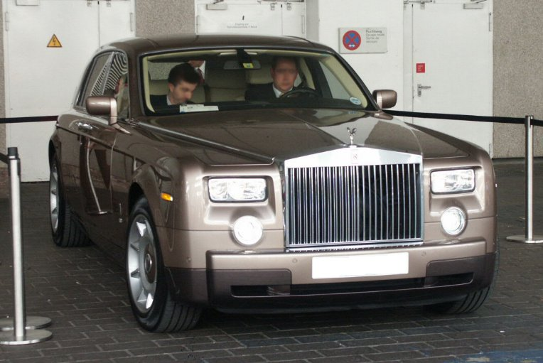 Rolls-Royce Phantom (2003)